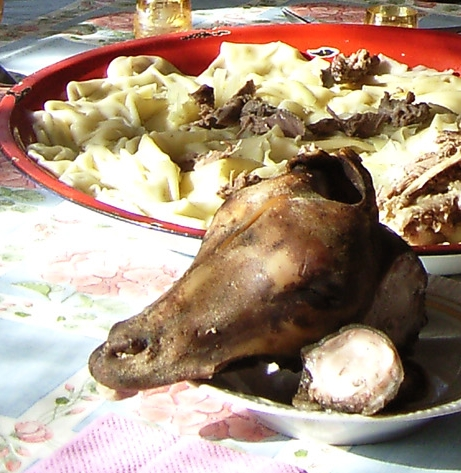 photographed and eaten by Stefan Goen, Korgalzhyn, Kazakhstan, 10/2005